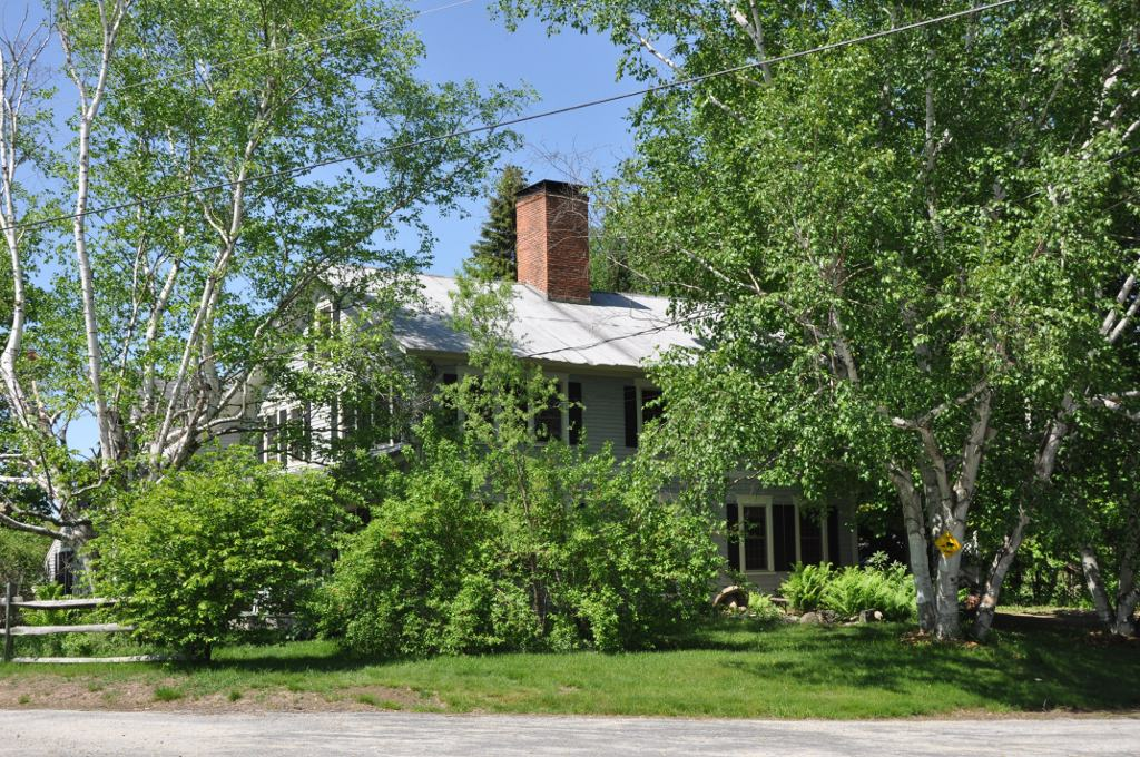 The farmhouse at the historic Bennett Farm in Henniker, New Hampshire.